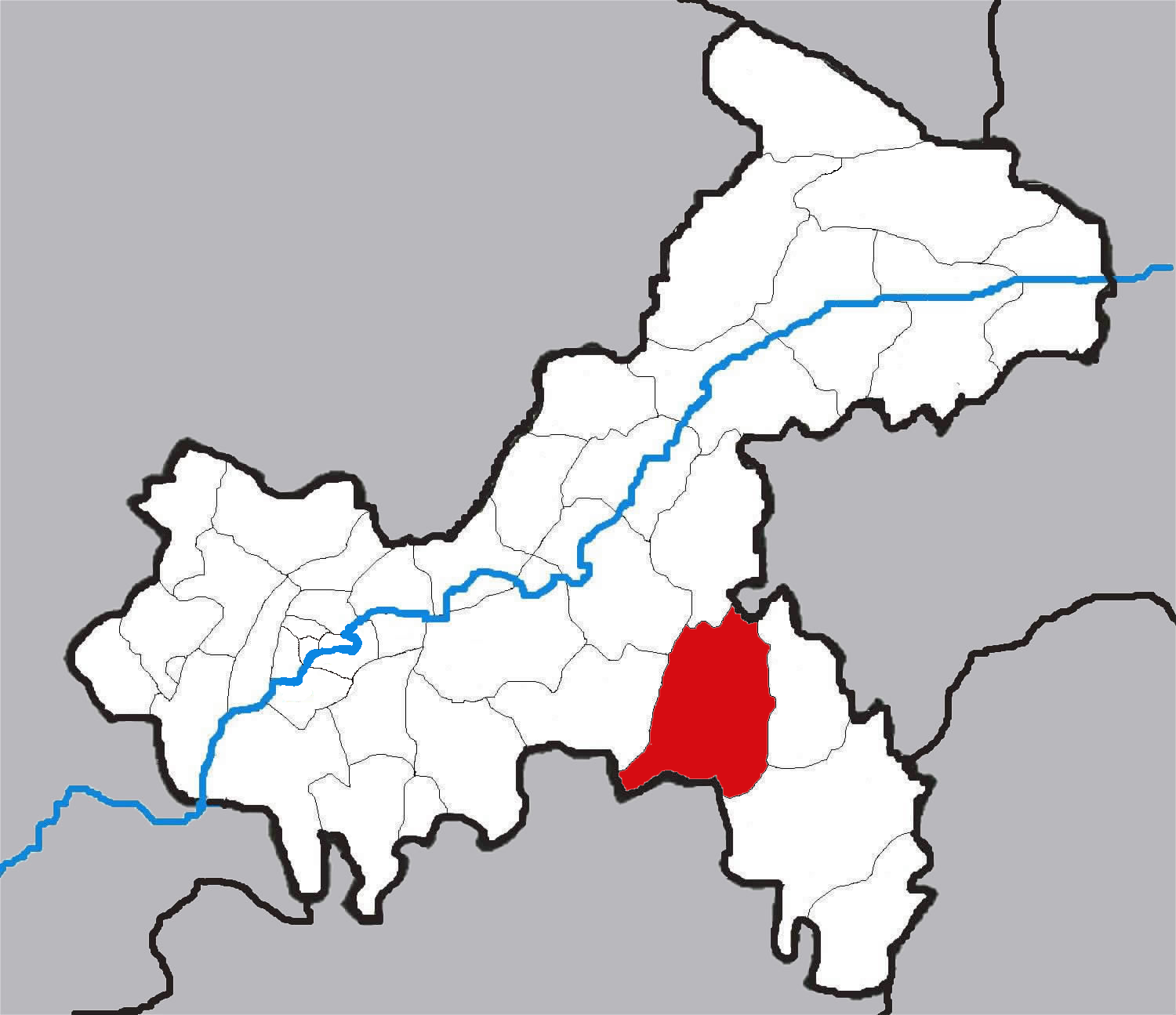 Administration maps of Chongqing, China